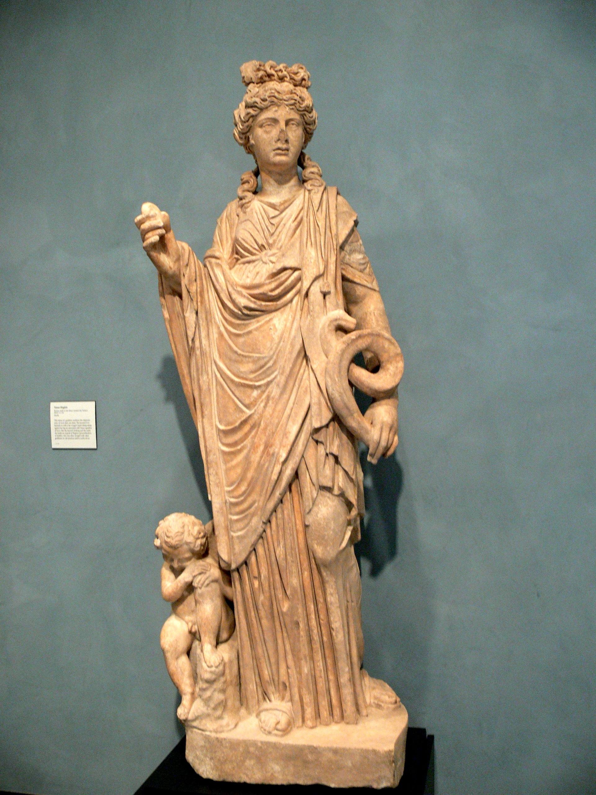 Venus-Hygieia. Roman, made in Asia Minor, about A.D.200